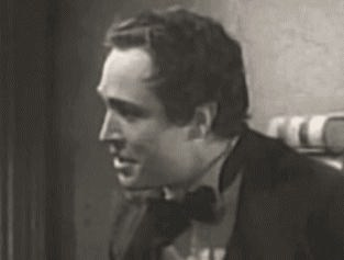 Jason Robards, Sr. in Abraham Lincoln - cropped screenshot